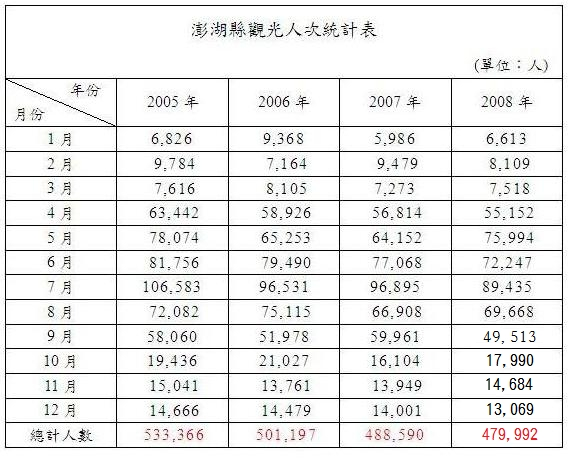 澎湖縣觀光人數統計表